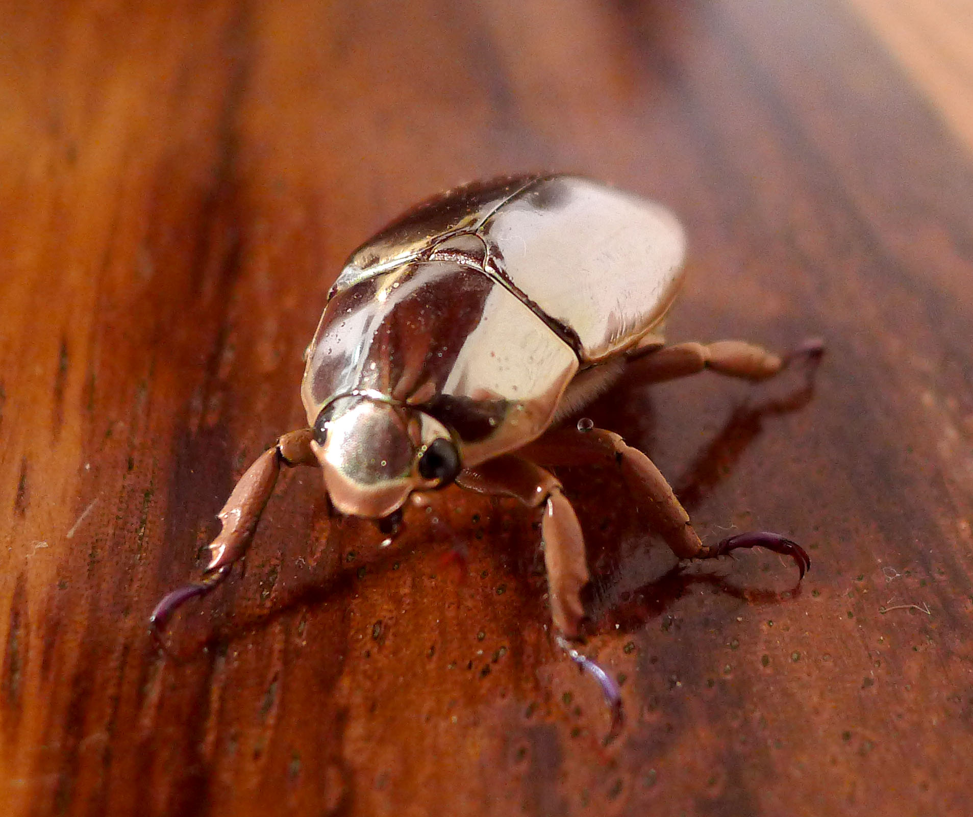 Gold Bug .Plusiotis resplendens